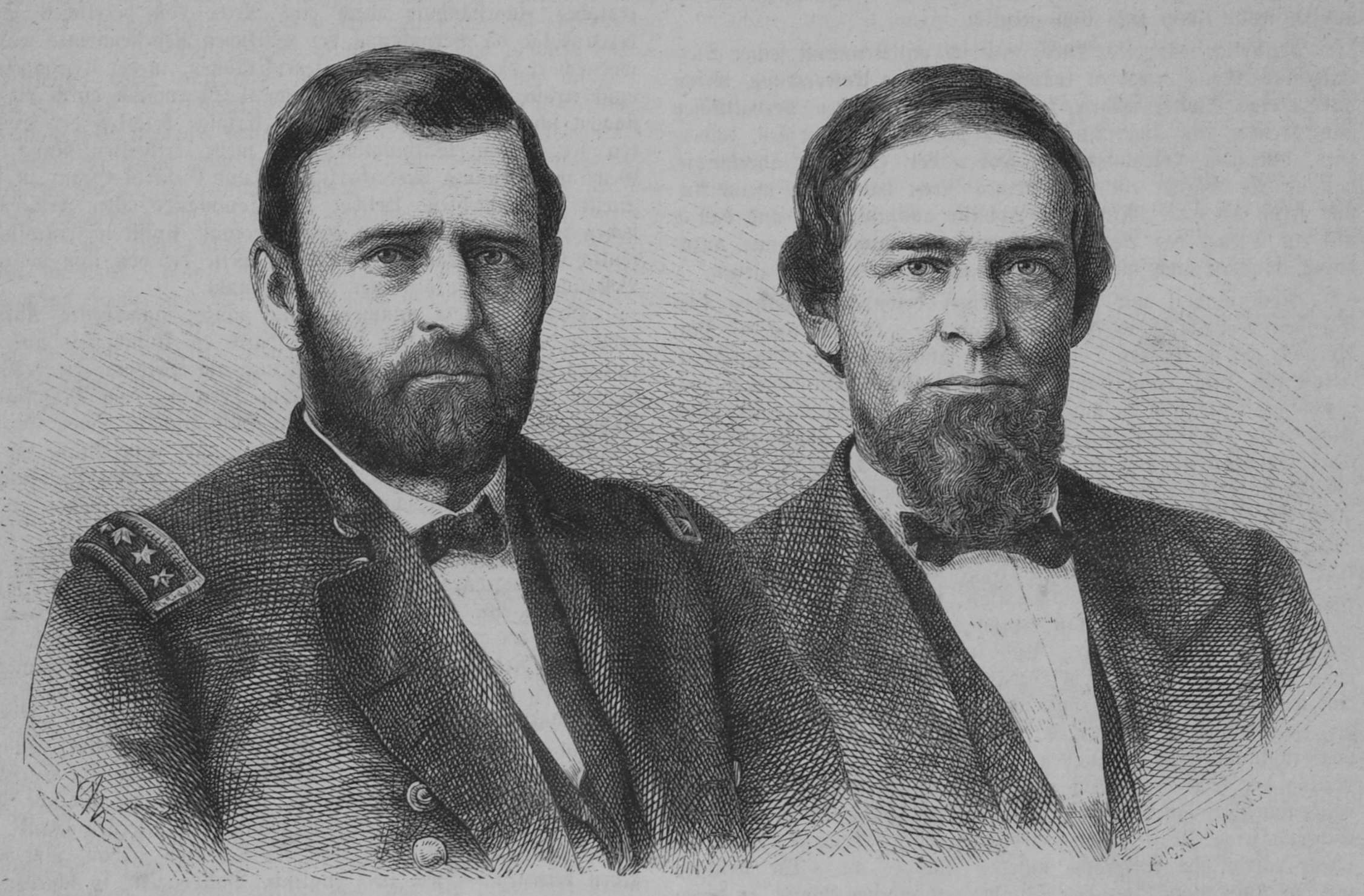 caption: "Präsident Grant. Vicepräsident Colfax."